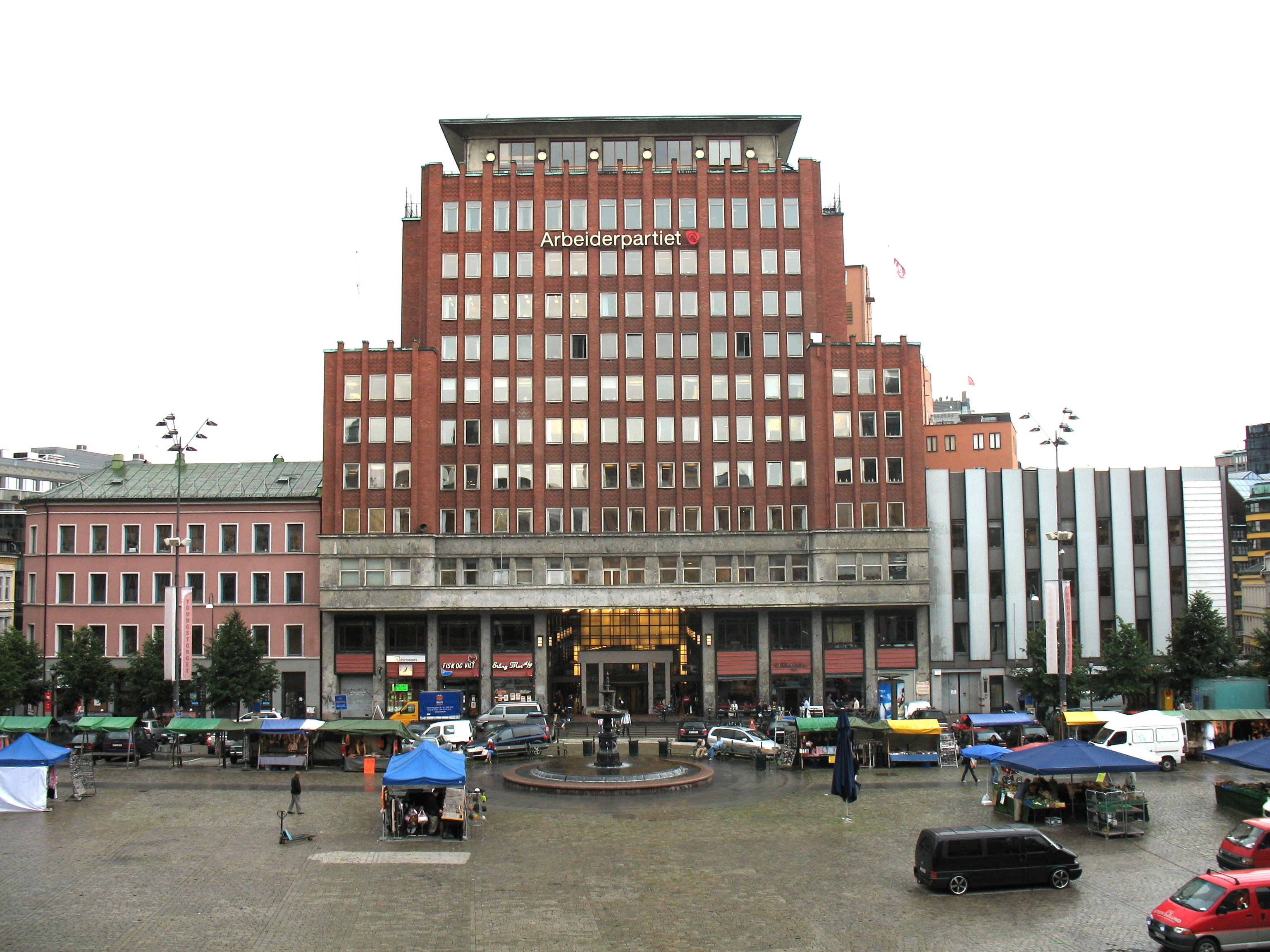 The People's theater (Folketeateret), Youngstorget in Oslo, Norway. Built 1935; Architects: Morgenstierne and Eide.